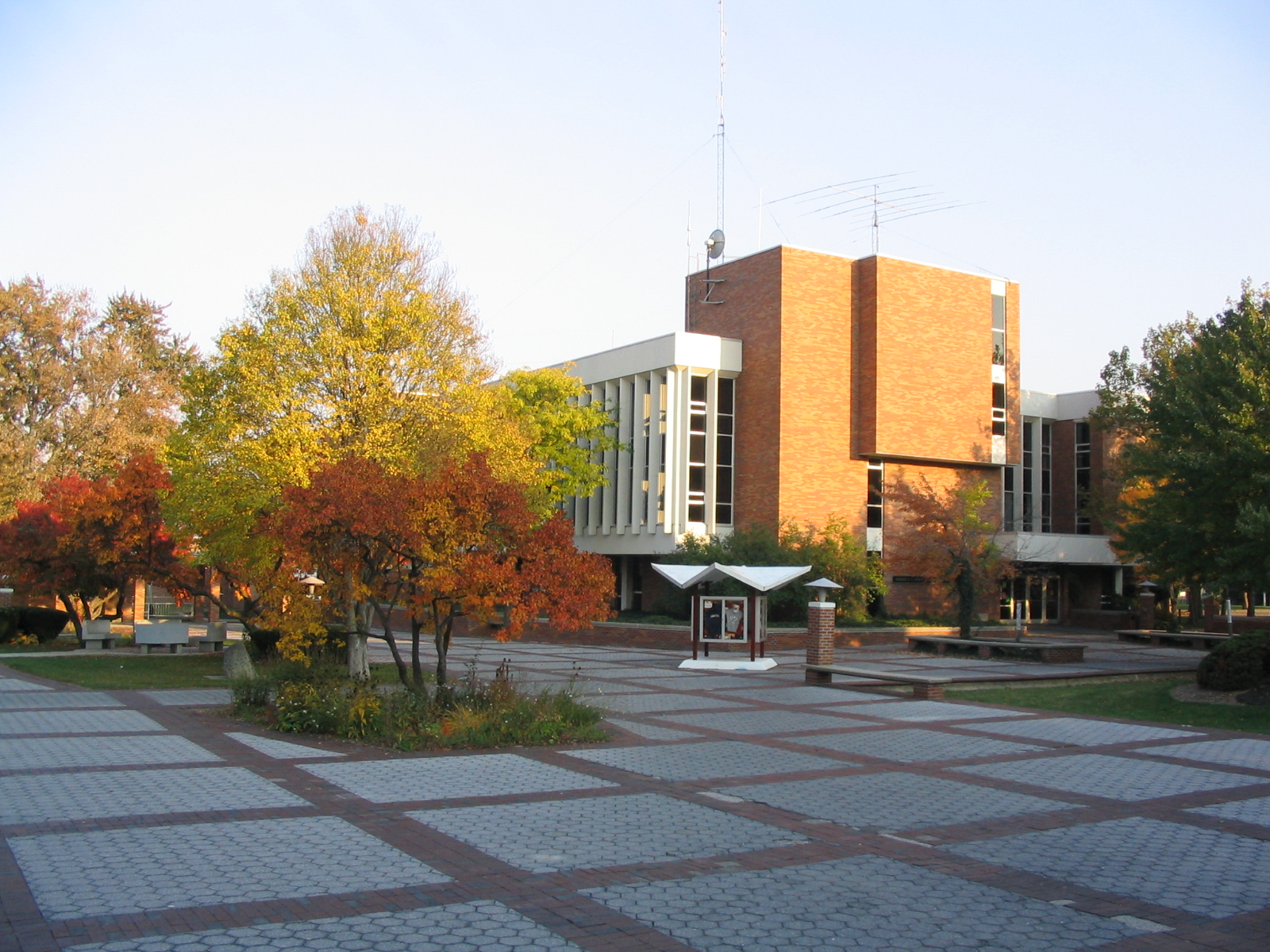 McIntyre Mall, Alma College, Alma, Michigan, USA. Swanson Academic Center in background